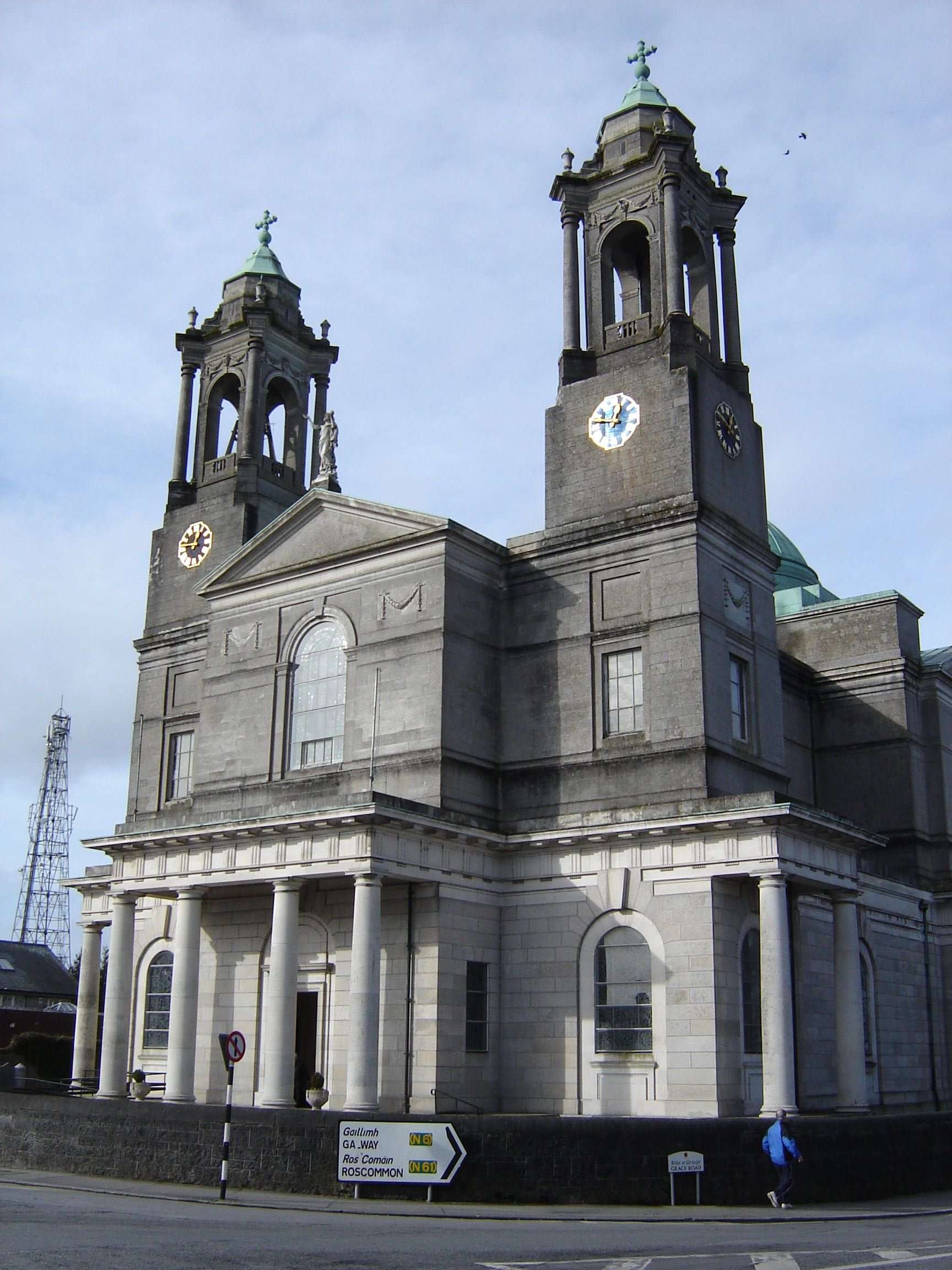 St. Peter and Paul's church in Athlone, Ireland.